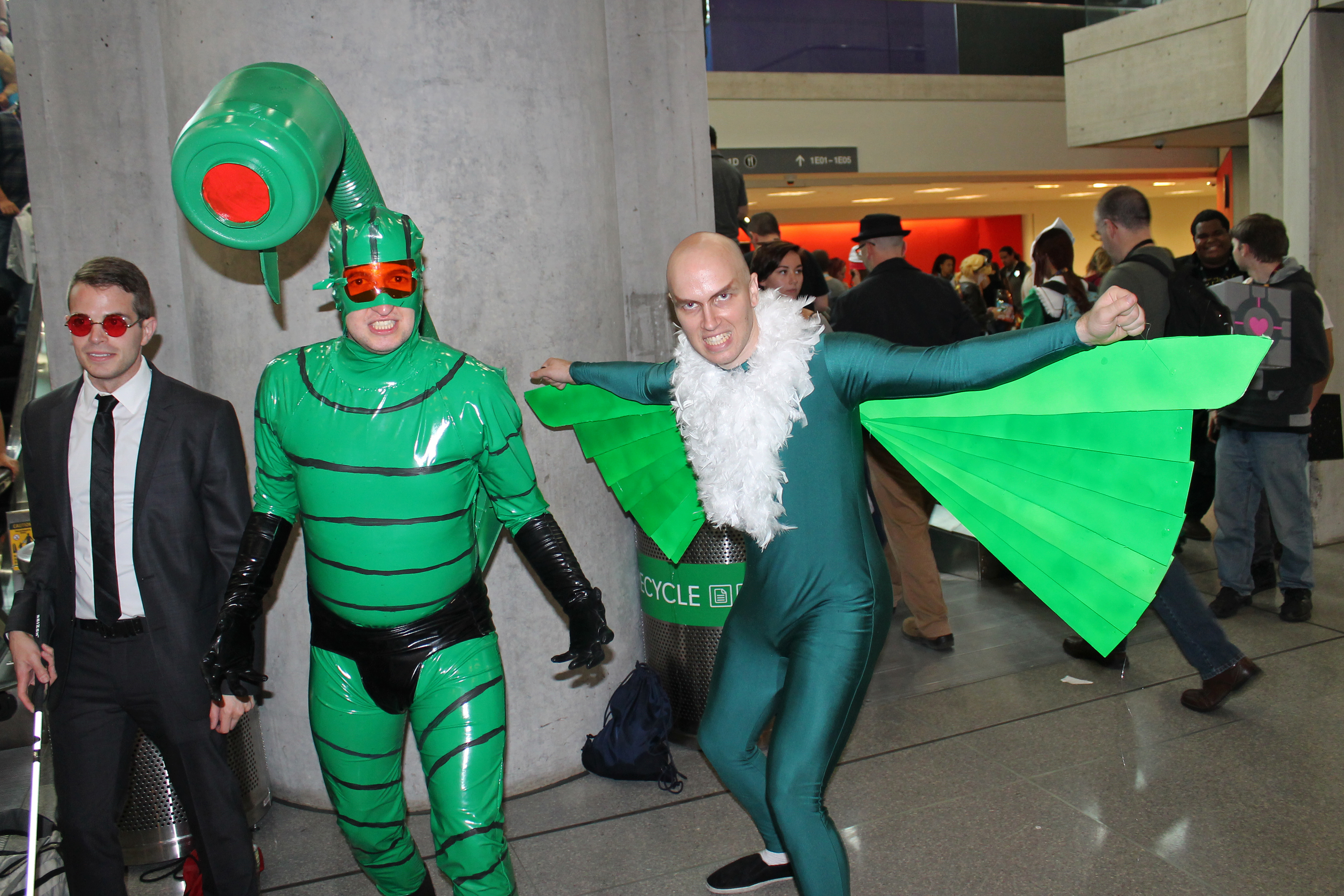 Cosplay at New York Comic Con 2016 (NYCC 2016).